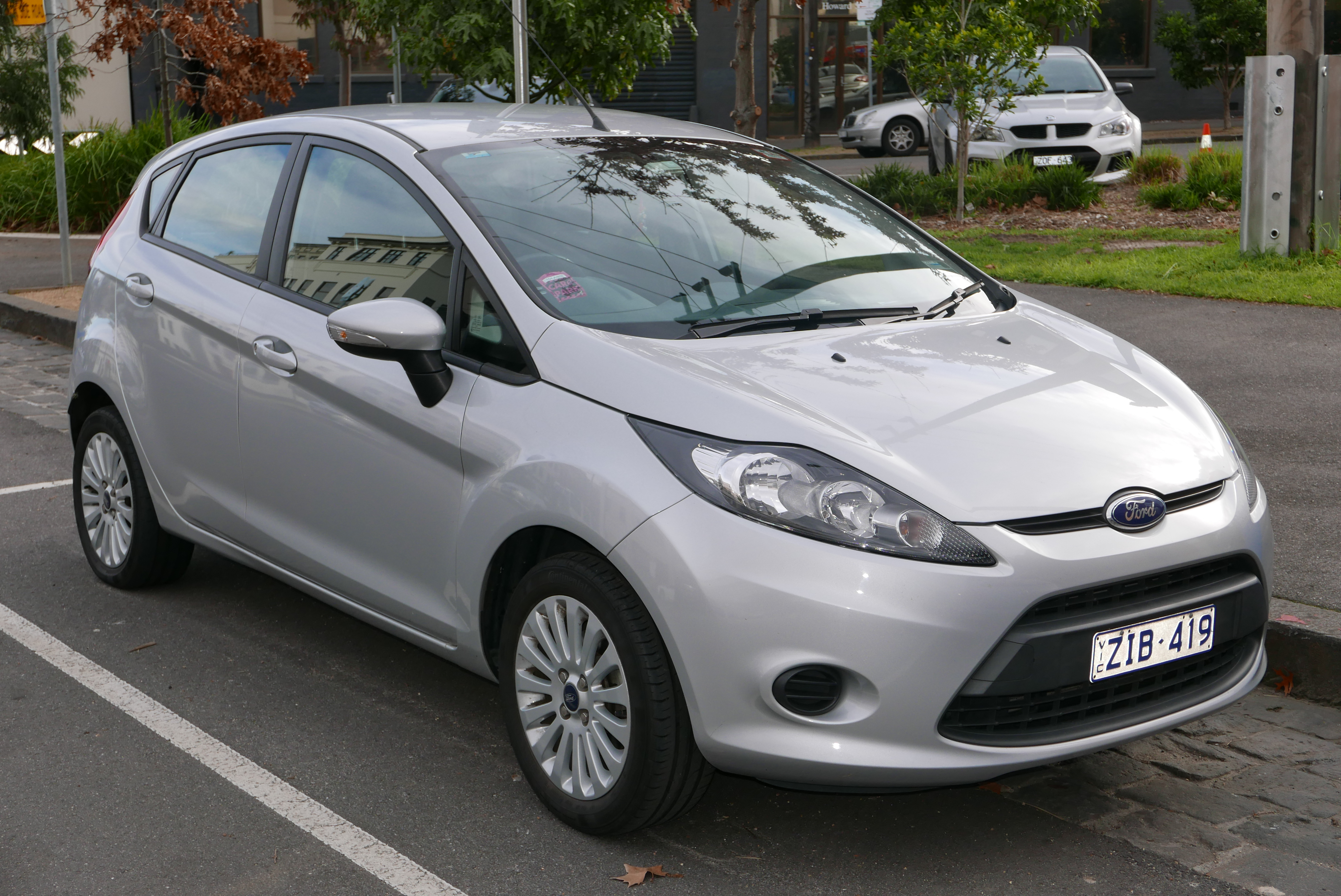 2010 Ford Fiesta (WT) LX 5-door hatchback. Photographed in West Melbourne, Victoria, Australia. Vehicle registration enquiry results Jurisdiction Victoria Registration ZIB419 Chassis code MNBJXXARJJAB15781 Engine code TSJAAB15781 Compliance date 2010-10 Year of manufacture 2010